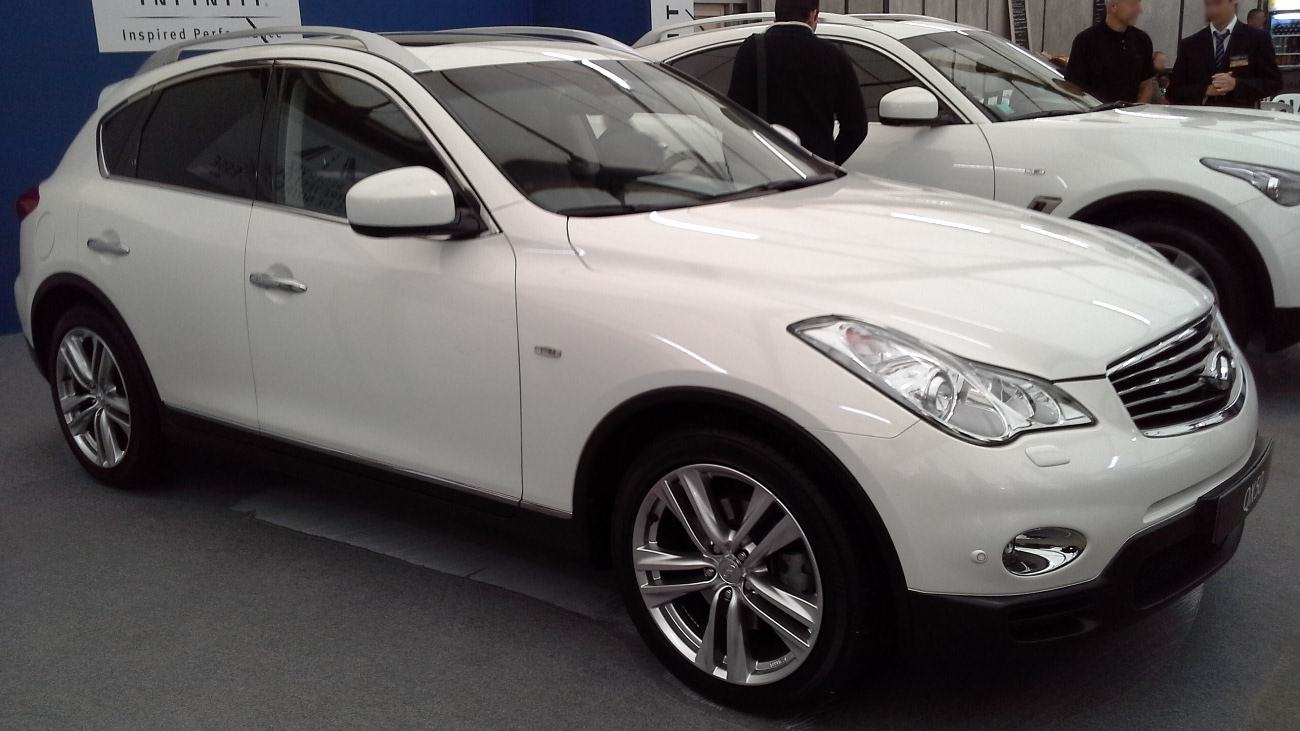 Infiniti QX50 photographed at the 2014 Avignon Motor Festival in Avignon, France.